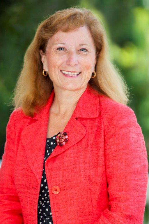 Senator Ellen M Corbett, California Senate Majority Leader